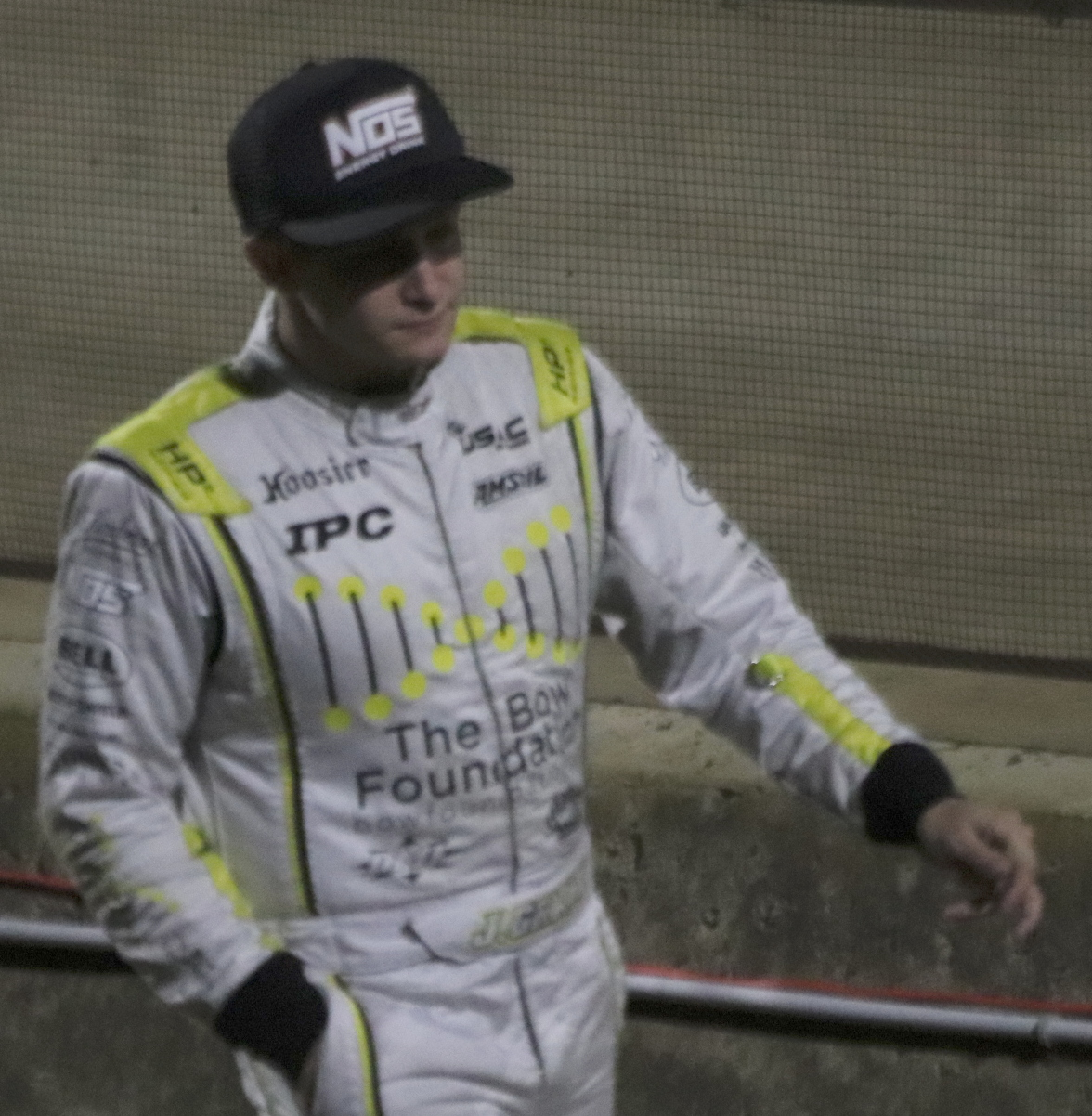 Justin Grant walking at Kokomo Speedway.